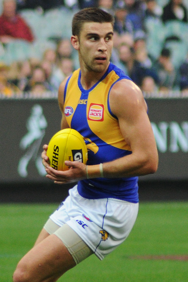 Elliot Yeo during the AFL round five match between Carlton and West Coast on 21 April 2018 at the Melbourne Cricket Ground in Melbourne, Victoria.